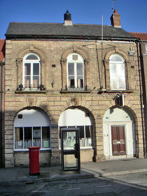 The Corn Exchange, Barton Upon Humber. The Corn Exchange is situated on Market Place. Not nearly as grand as the one in Newbury (Berks.) 74685.